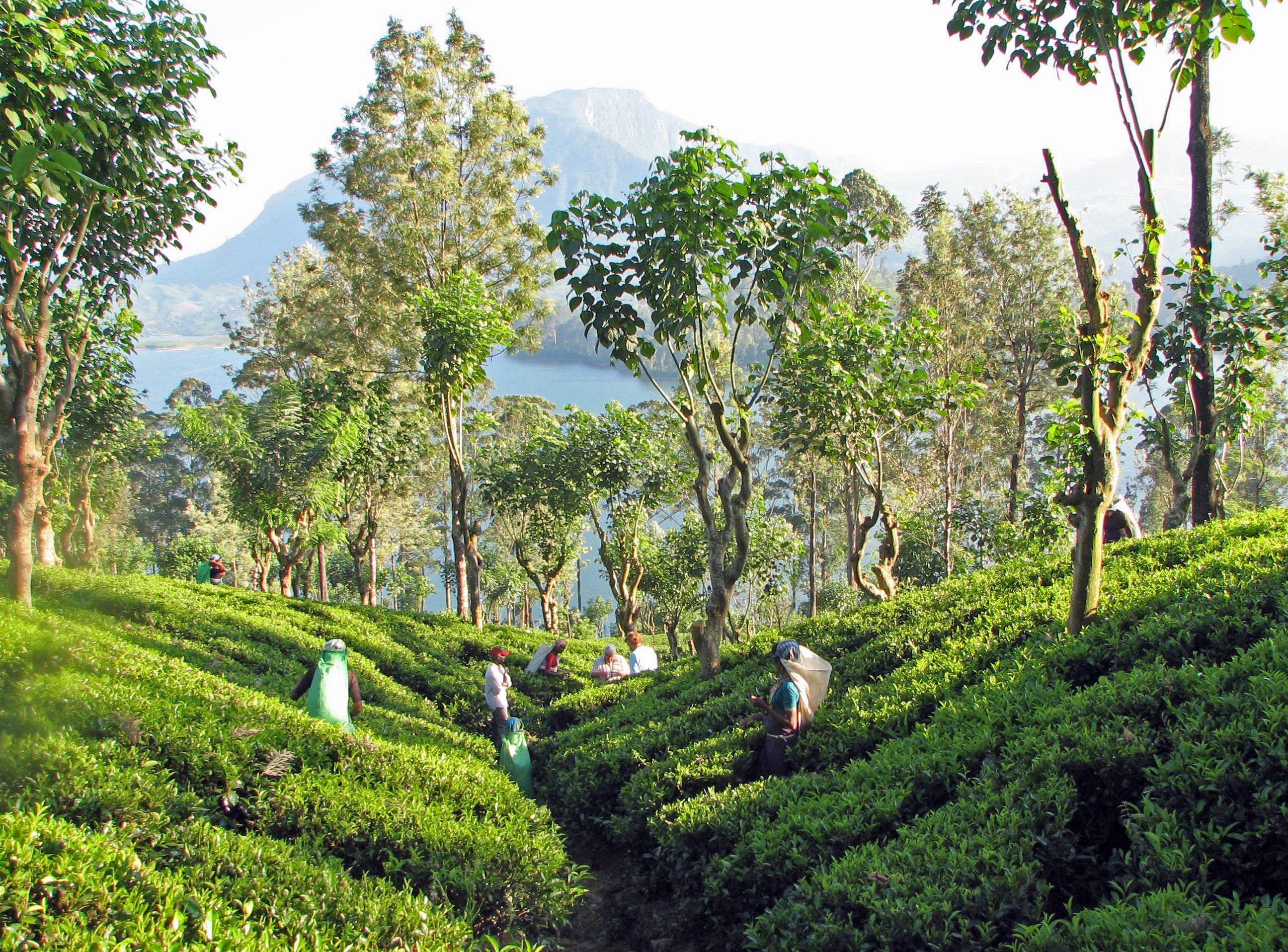 Tea plantation near Kandy, Sri Lanka